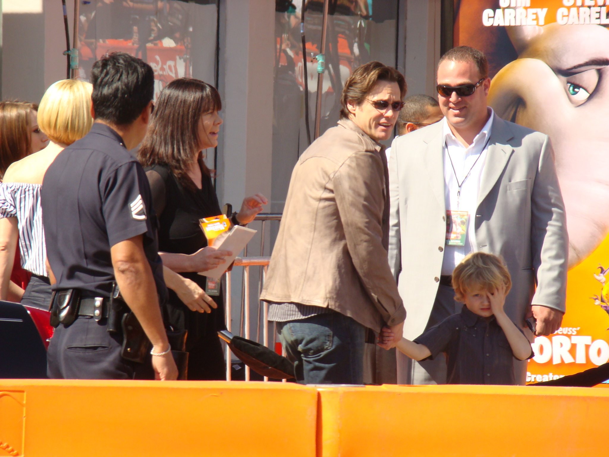 Craziness-Jim Carrey, Jenny McCarthy and family...